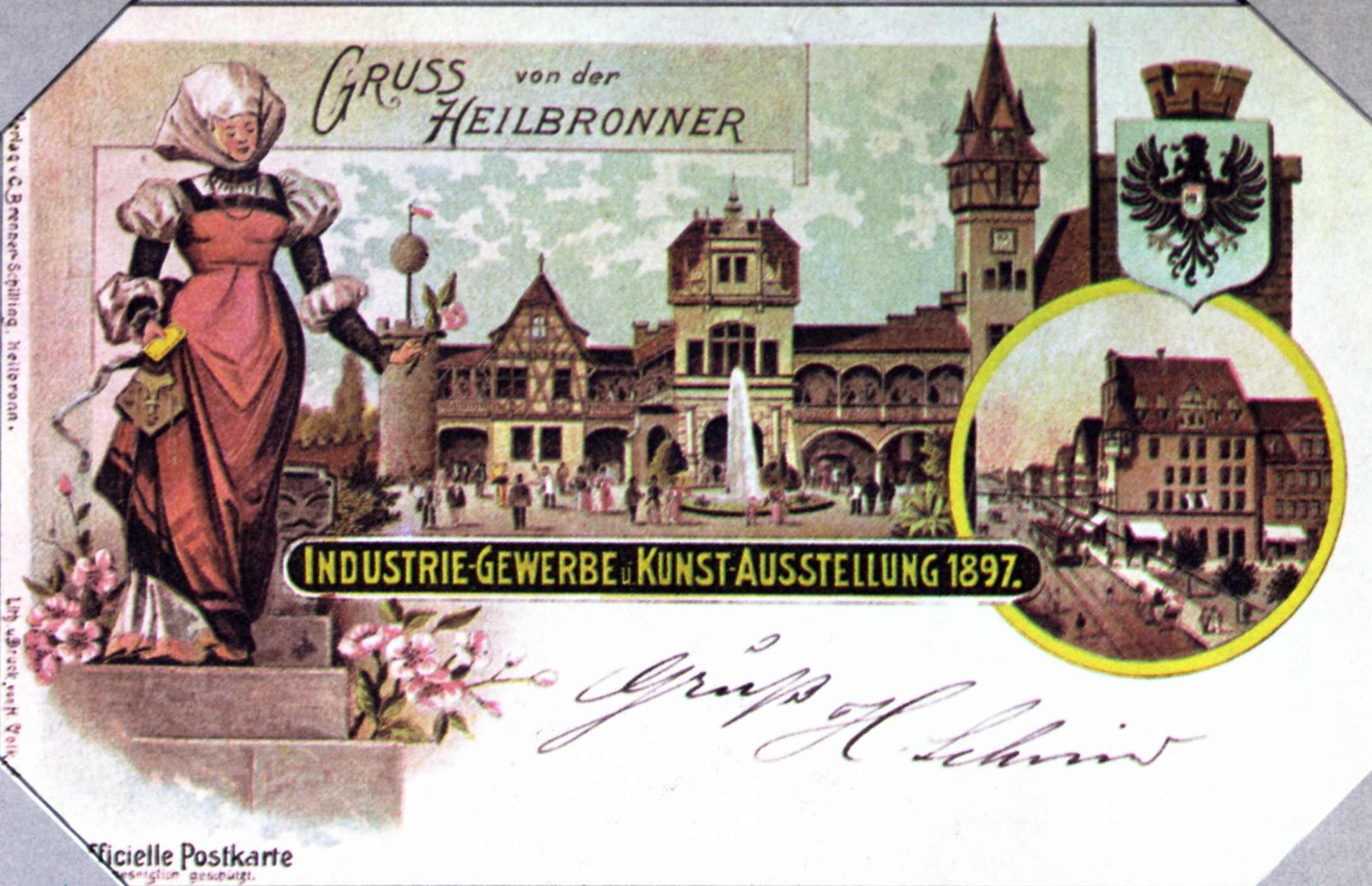 Postcard of a fair in Heilbronn 1897